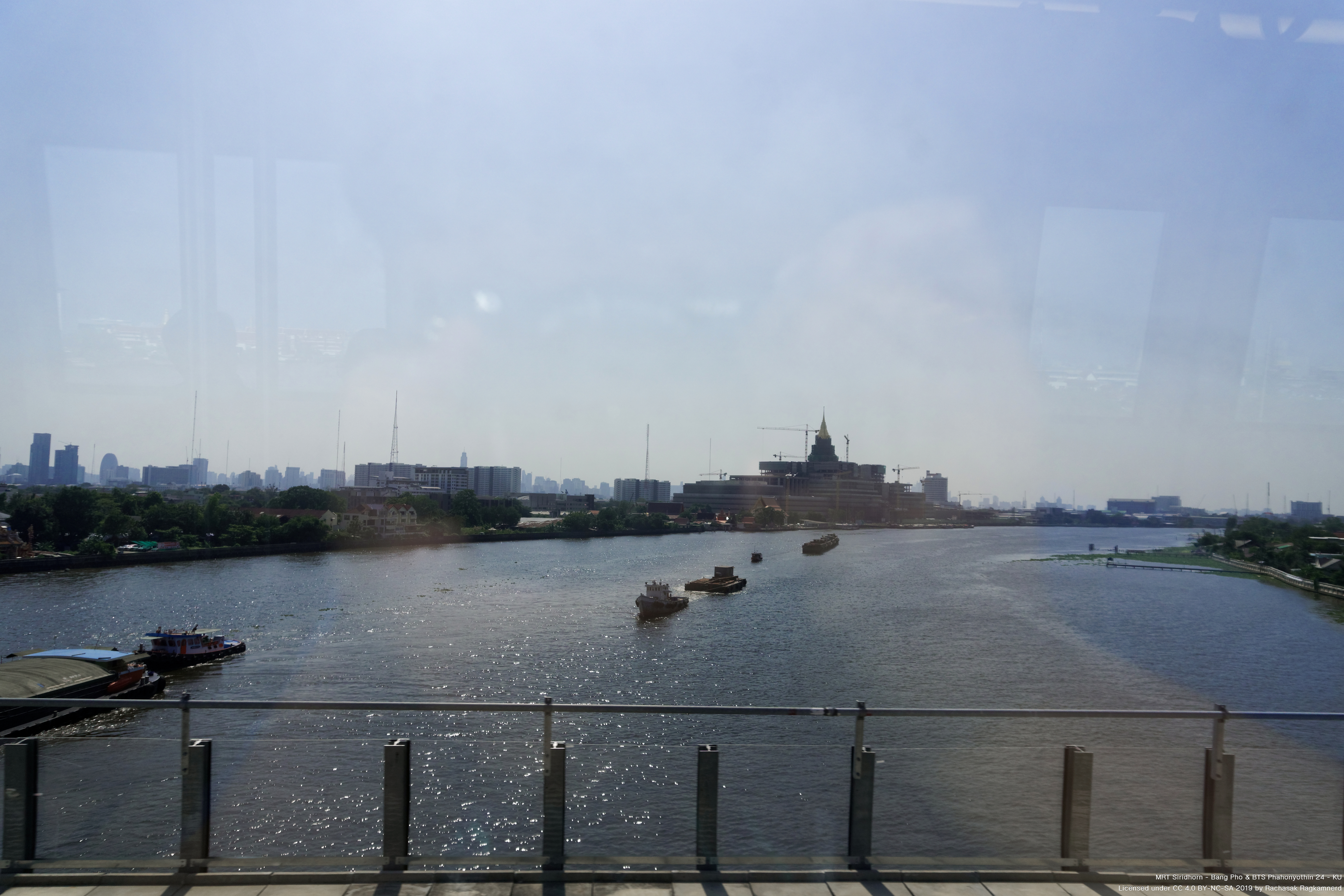 MRT Bang Pho - Chao Phraya river with the parliament building